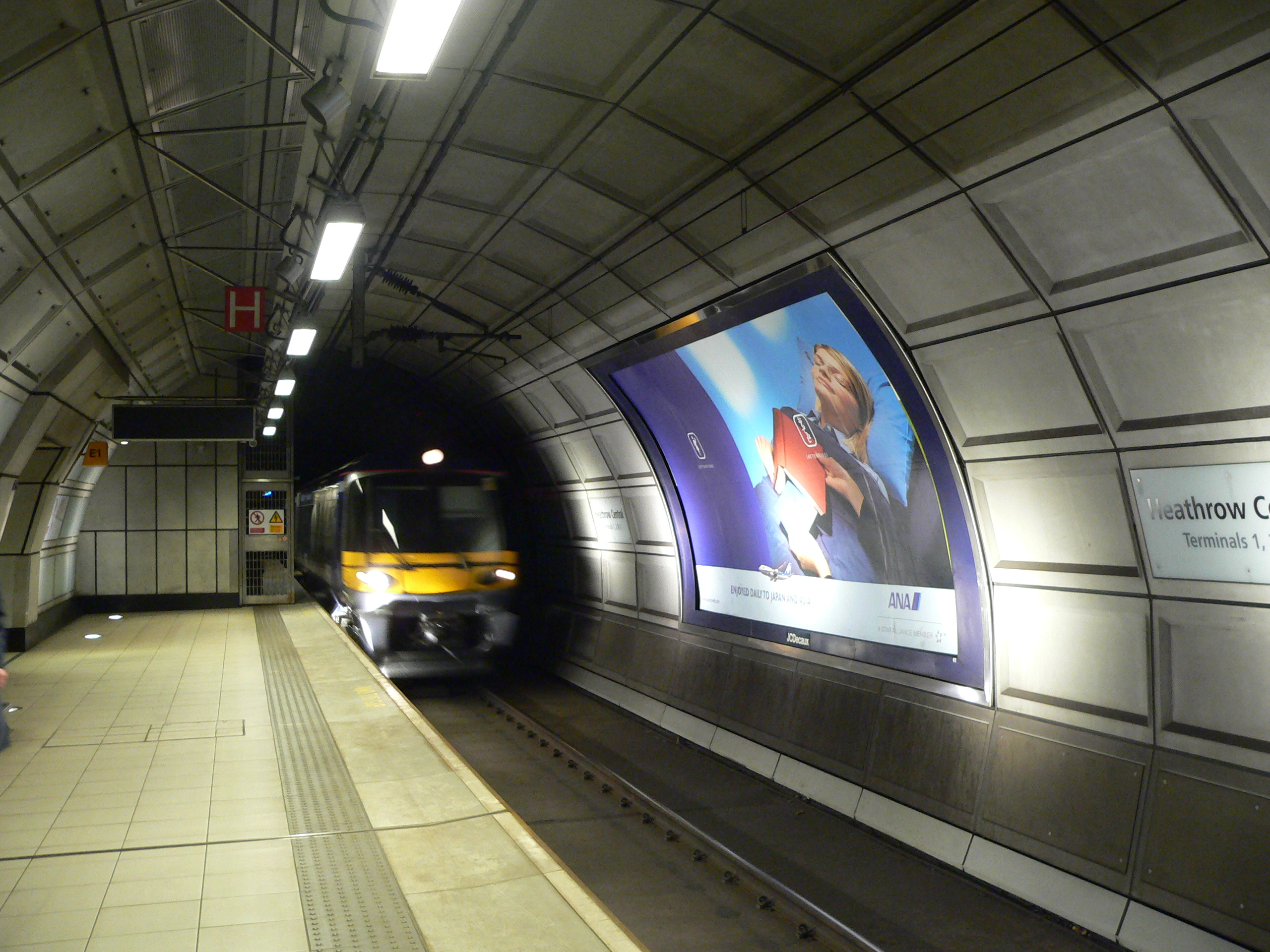 Heathrow Express entering the Heathrow Central